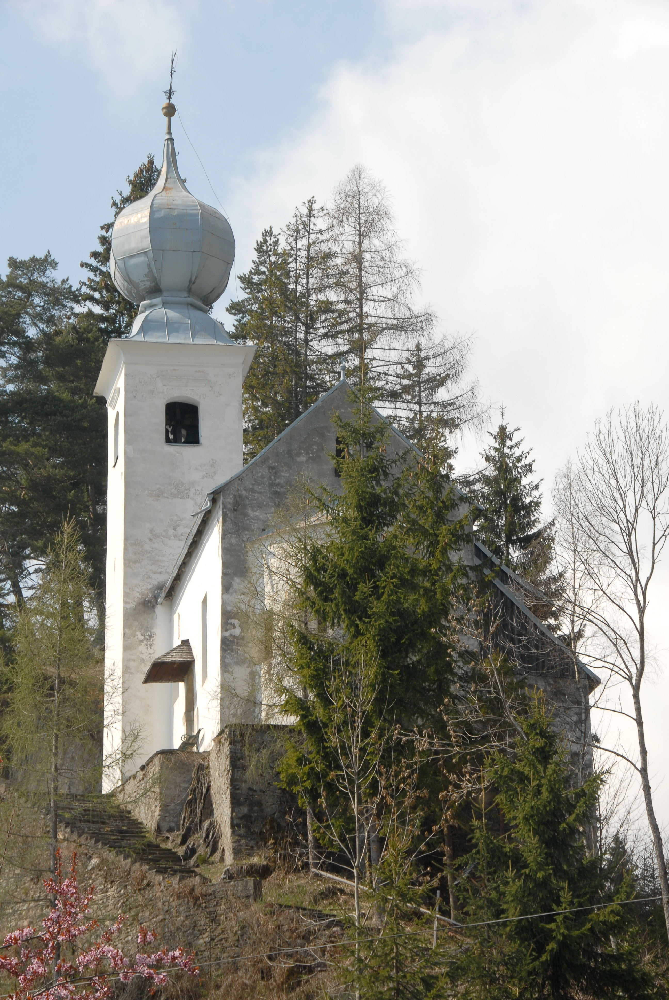 Church Maria in Hohenburg, municipality Lurnfeld, district of Spittal on the Drau, Carinthia, Austria